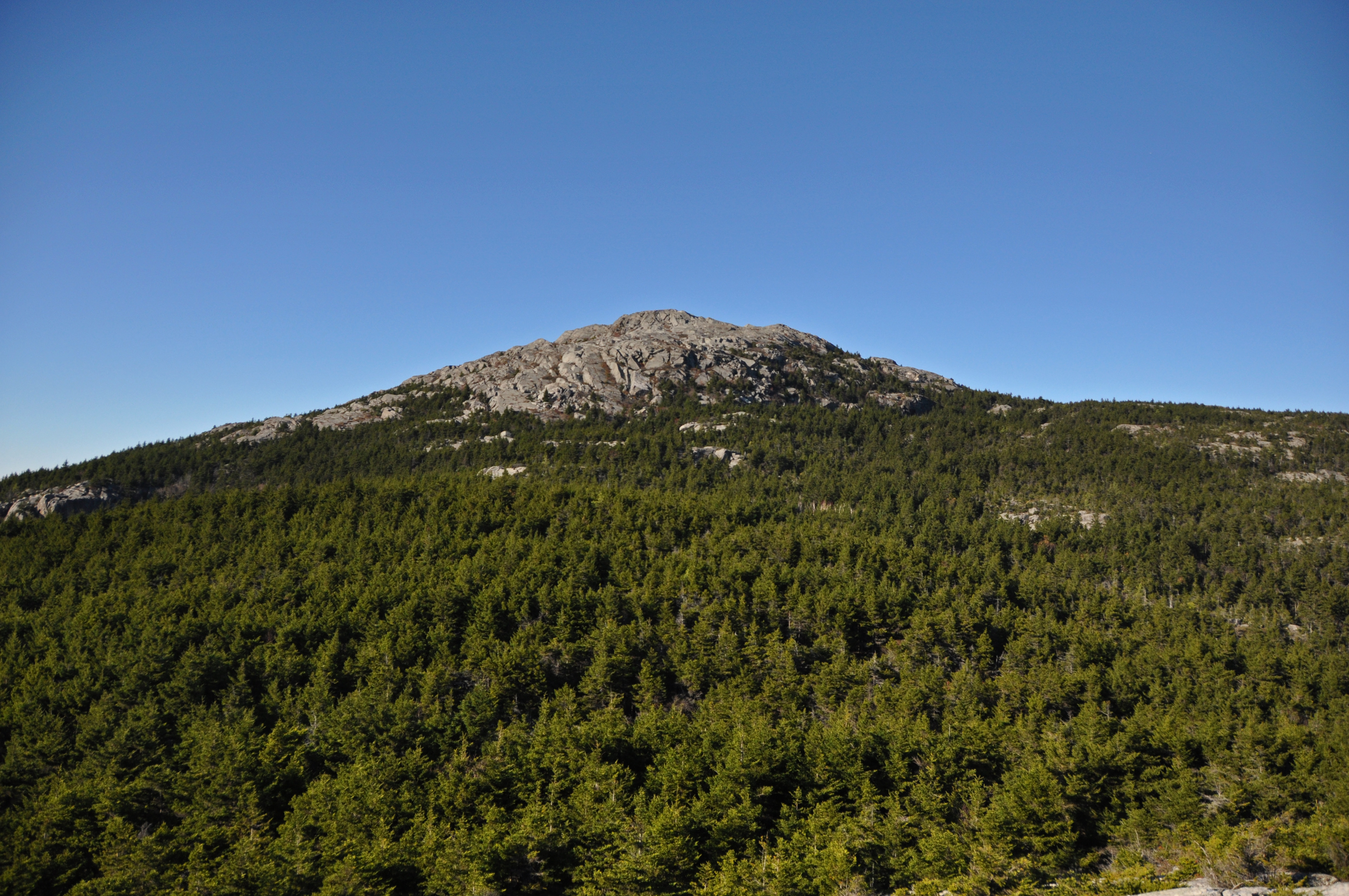 A shot of the Mount Monadnock Summit from the south-east. Picture taken from Bald Rock, a small sub-peak of the mountain. This picture was taken during peek foliage season but due to the upper portion of the mountain being mostly conifers the vegetation is still predominantly green.